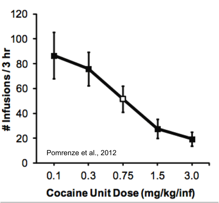 C57 mouse cocaine self-administration dose-response